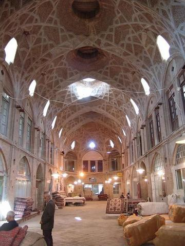 Kashanis Hall in Bazaar of Arak.